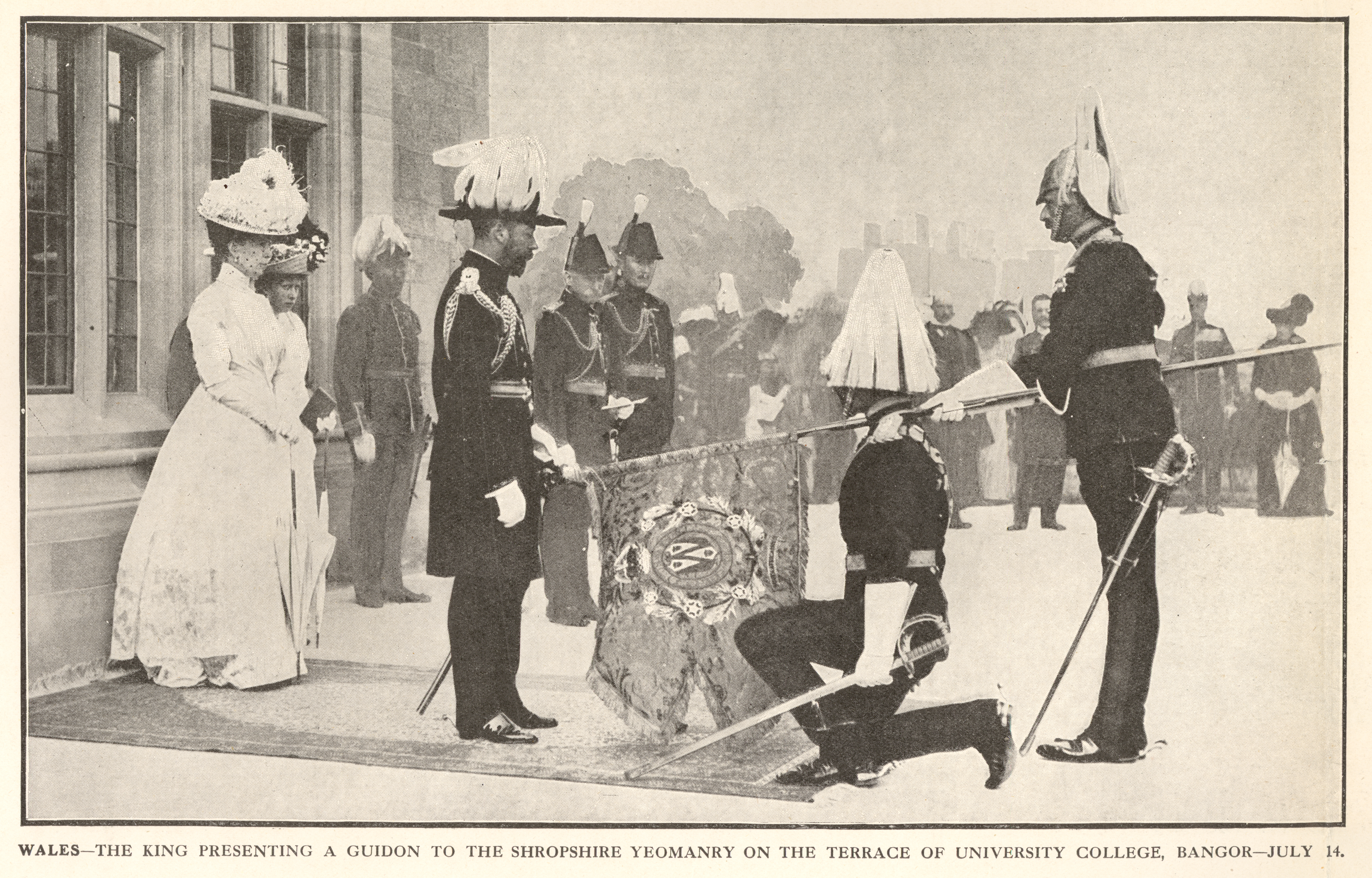 Wales - the king presenting a guidon to the Shropshire Yeomanry on the terrace of University College, Bangor on 14 July 1911.